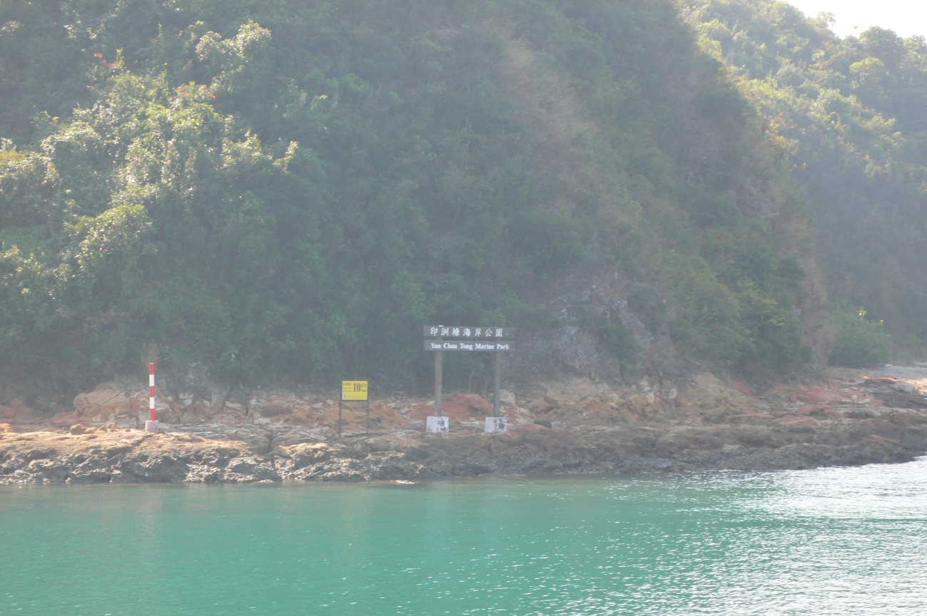 The Sign of Yan Chau Tong Marine Park, Hong Kong